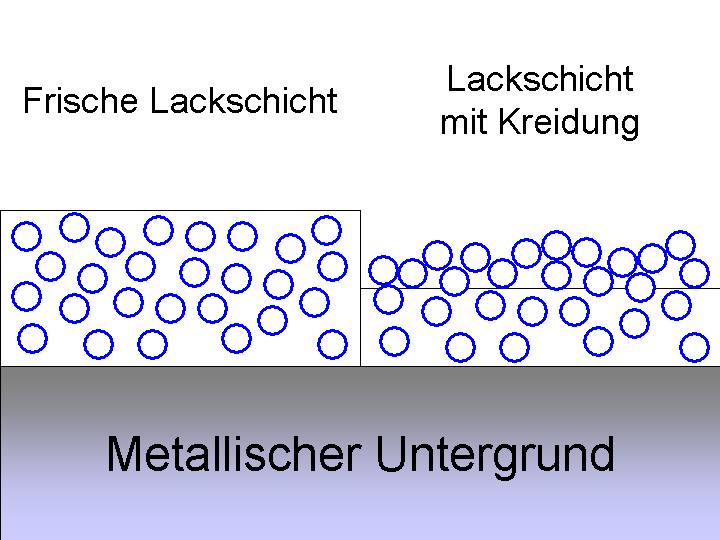 The chart shows how a coating layer is altered, if chalking occurs. On the left side can be seen how the layer looks immediately after application / hardening. The right side shows, how pigment particles (blue) are lying on the surface after the resin has been degraded.